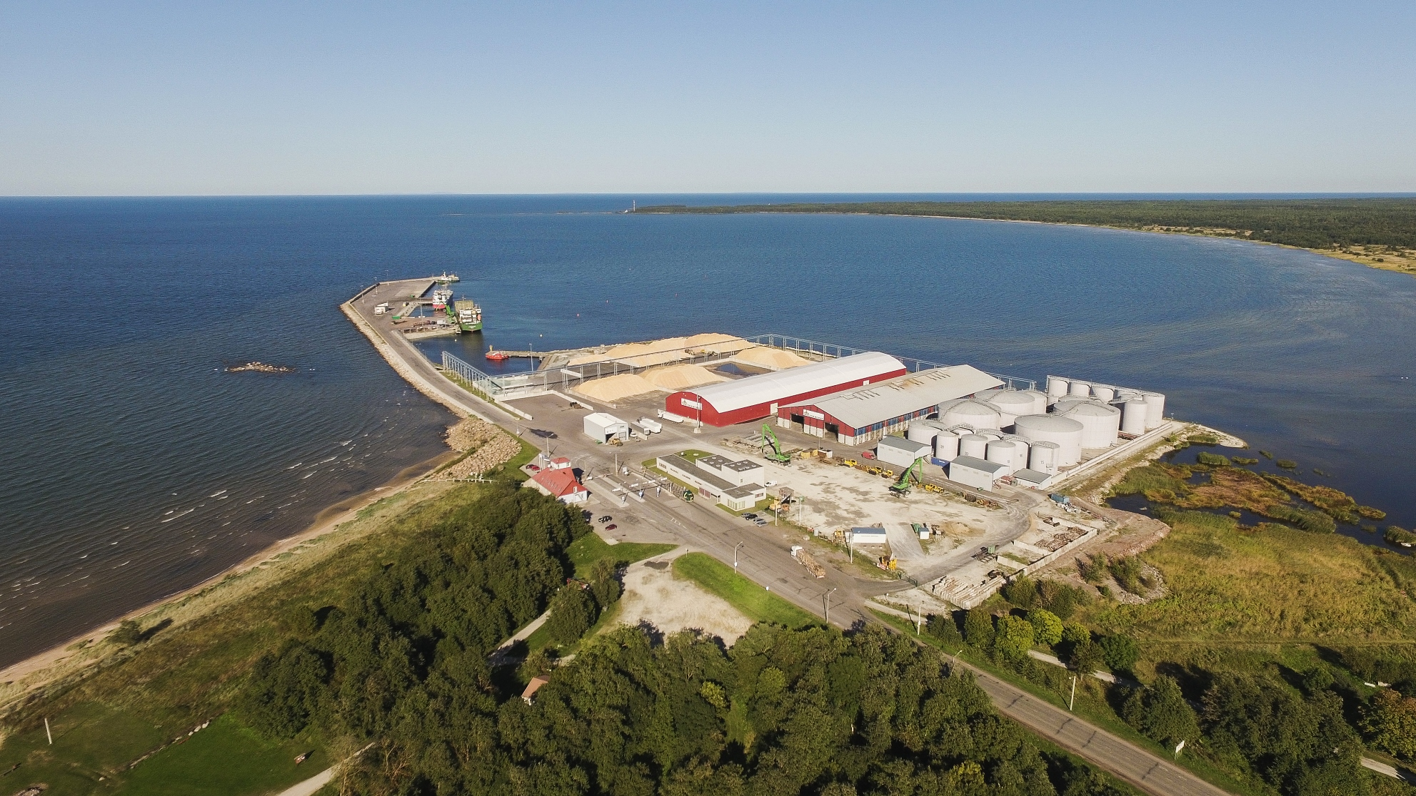 Port of Kunda